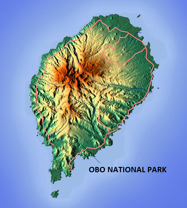 Relief location map of Sao Tome island showing Obo National Park